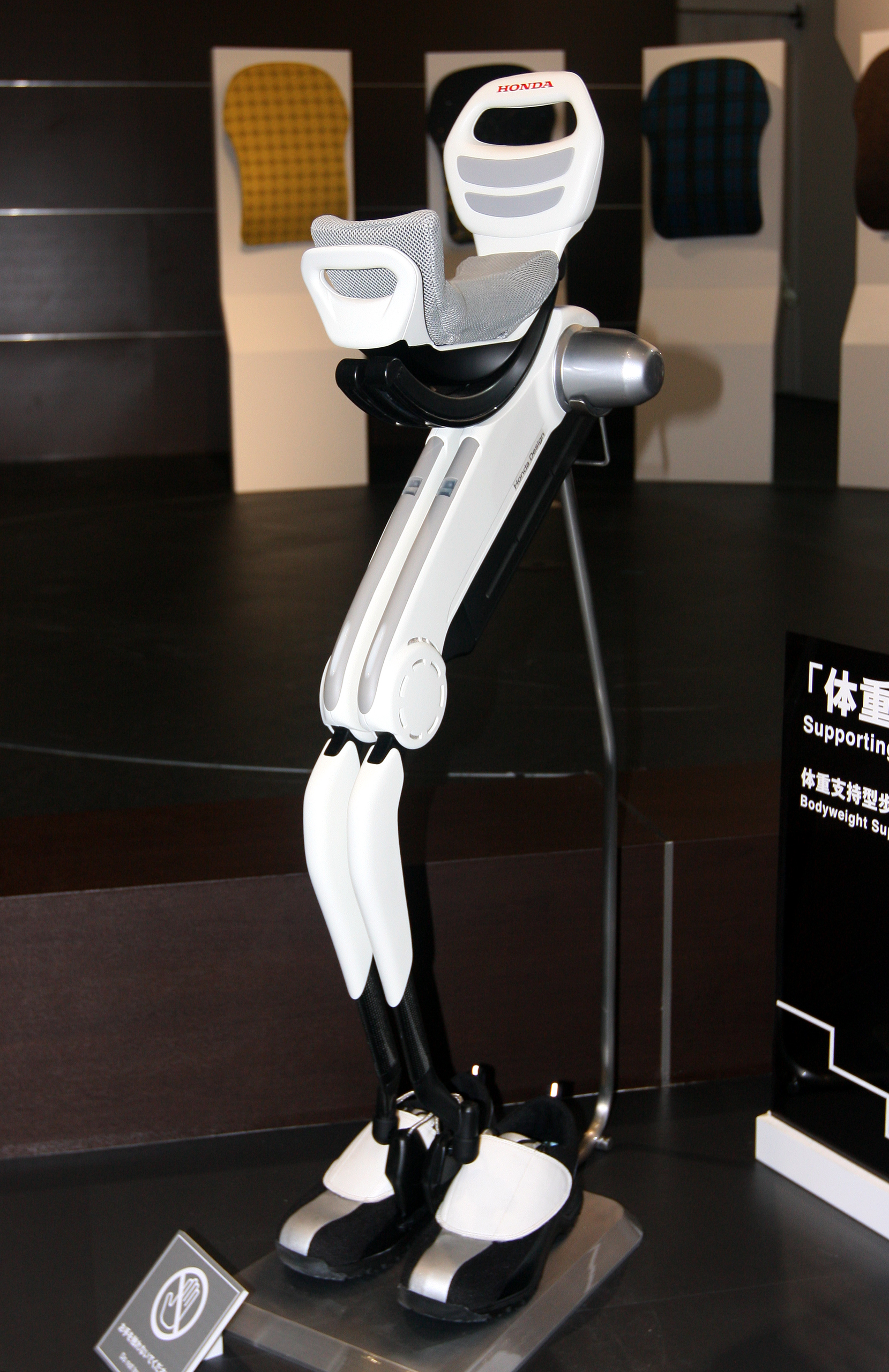 Honda Experimental Walking Assist Device